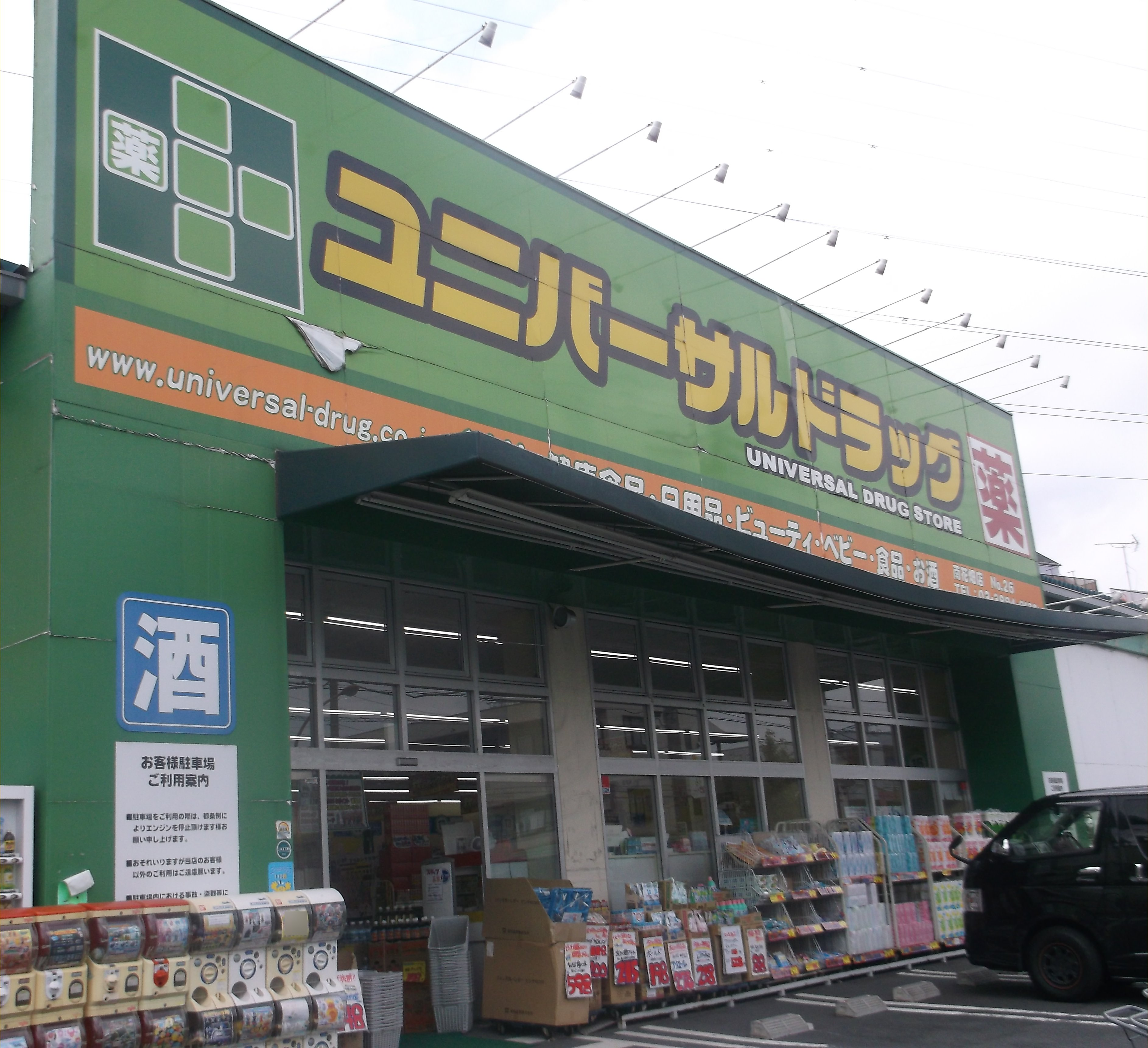 A photo of "Universal Drug"(a pharmacy in Tokyo.)Minamihanahata branch shop,Minamihanahata,Adachi-ku,Tokyo,Japan.